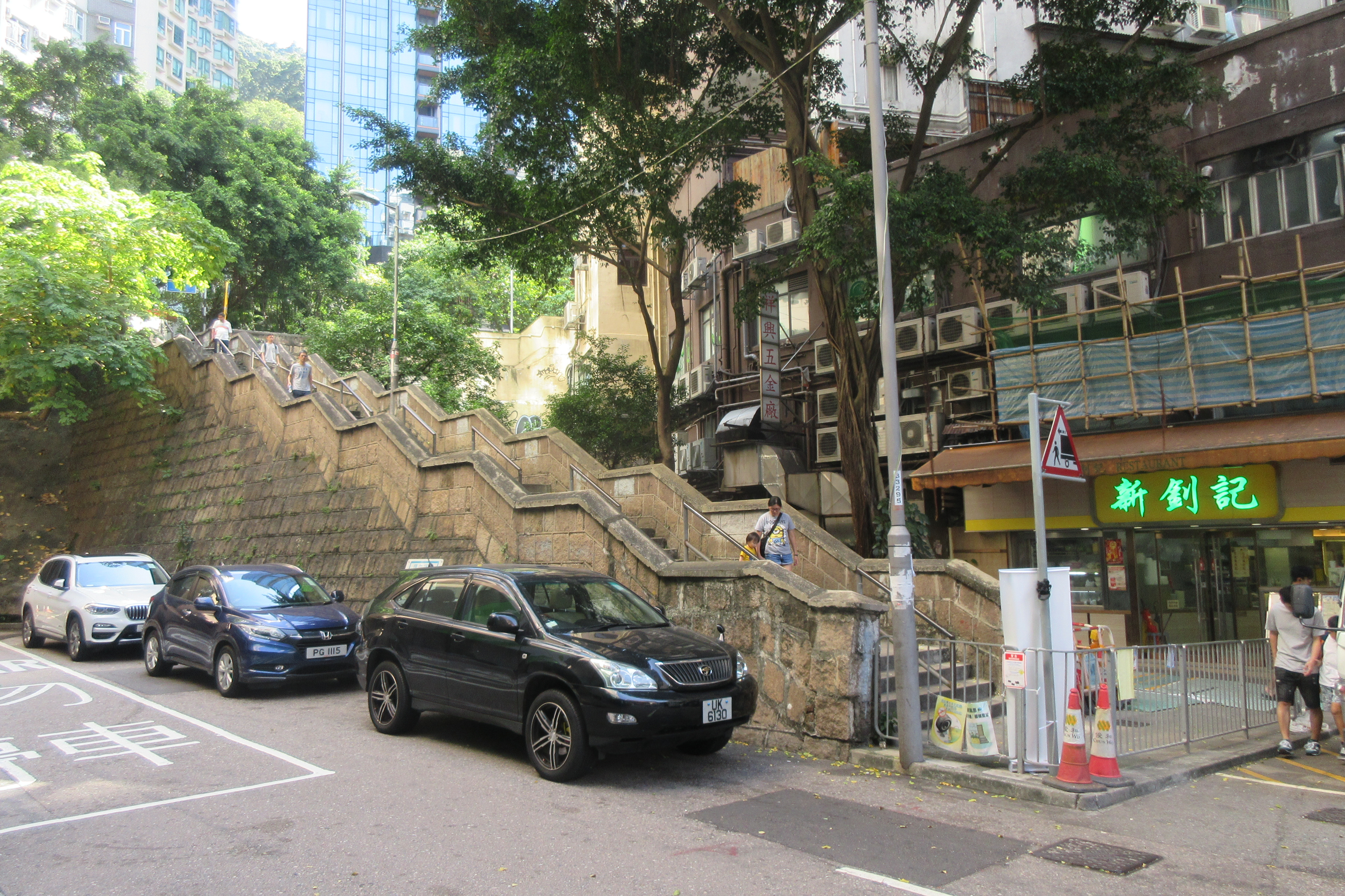 HK 天后 Tin Hau 留仙街 Lau Sin Street 英皇道 King's Road in October 2018 新釗記港式餐廳